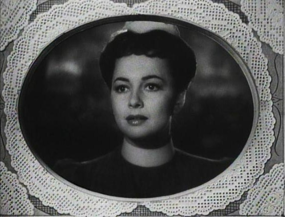 Frame from the public domain trailer for Warner Bros. 1941 film Strawberry Blonde showing Olivia de Havilland in a cameo frame